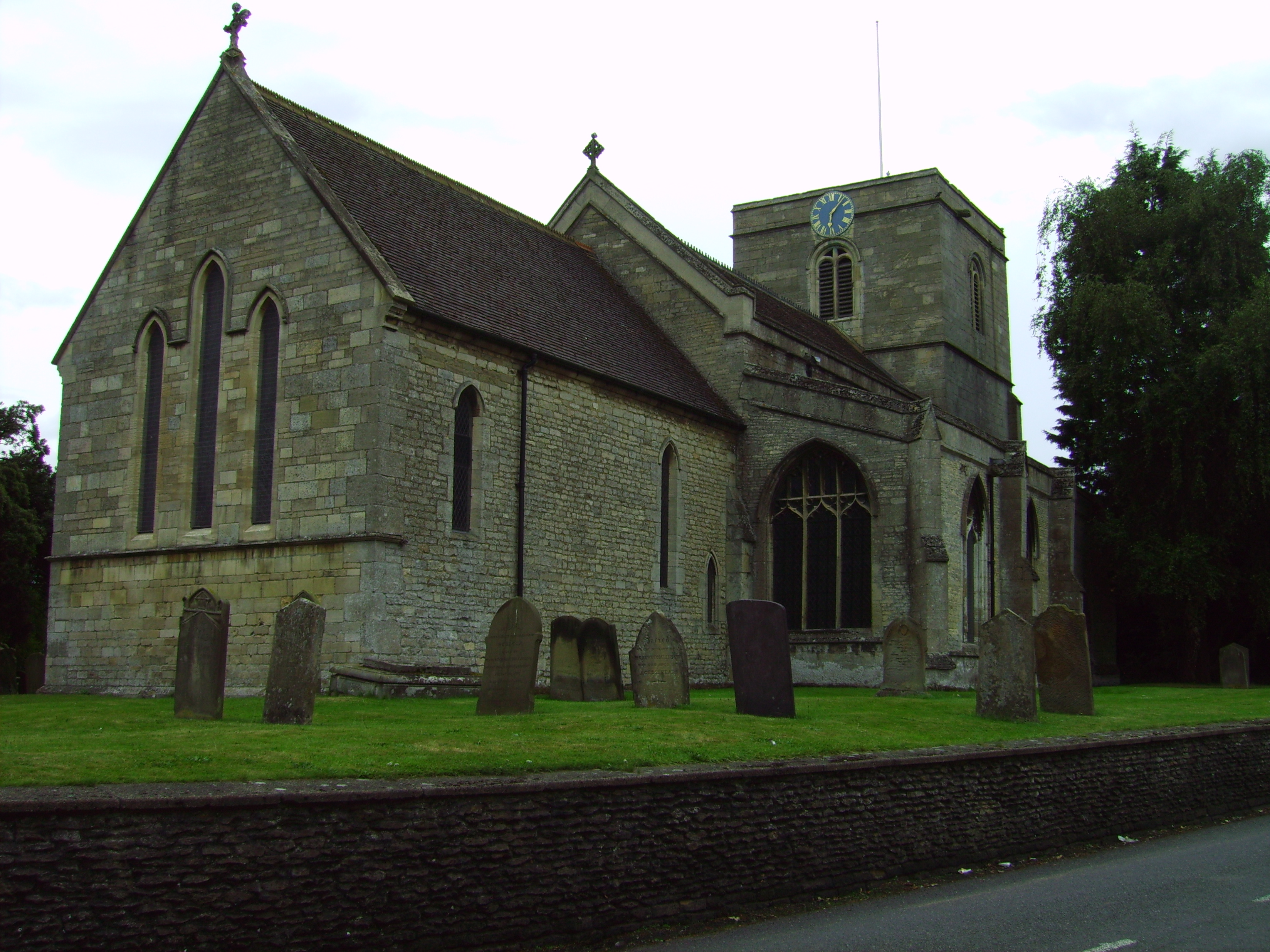 All Saints Church, Ruskington, Lincolnshire